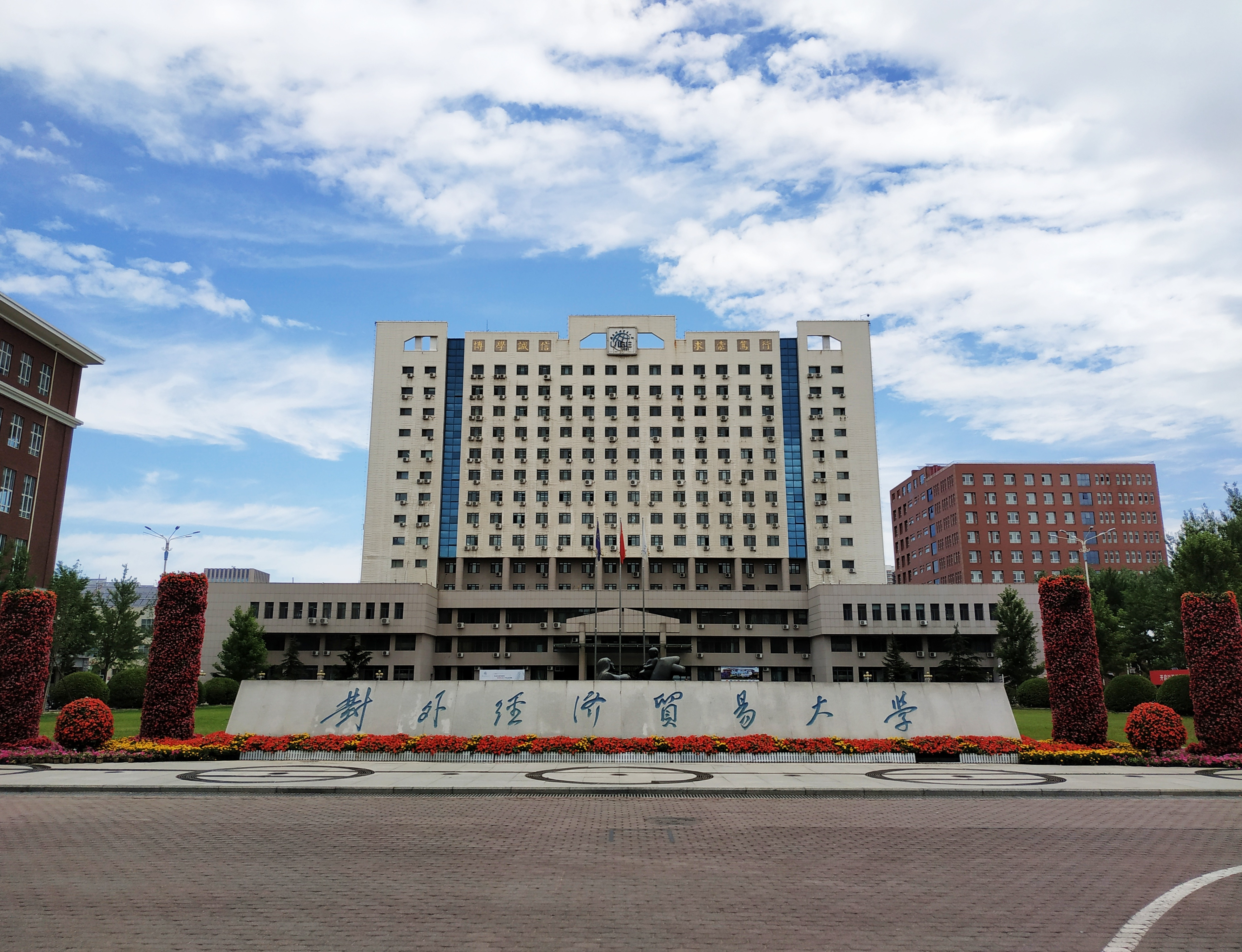 Chengxin building, University of International Business and Economics, photographed at the south gate.